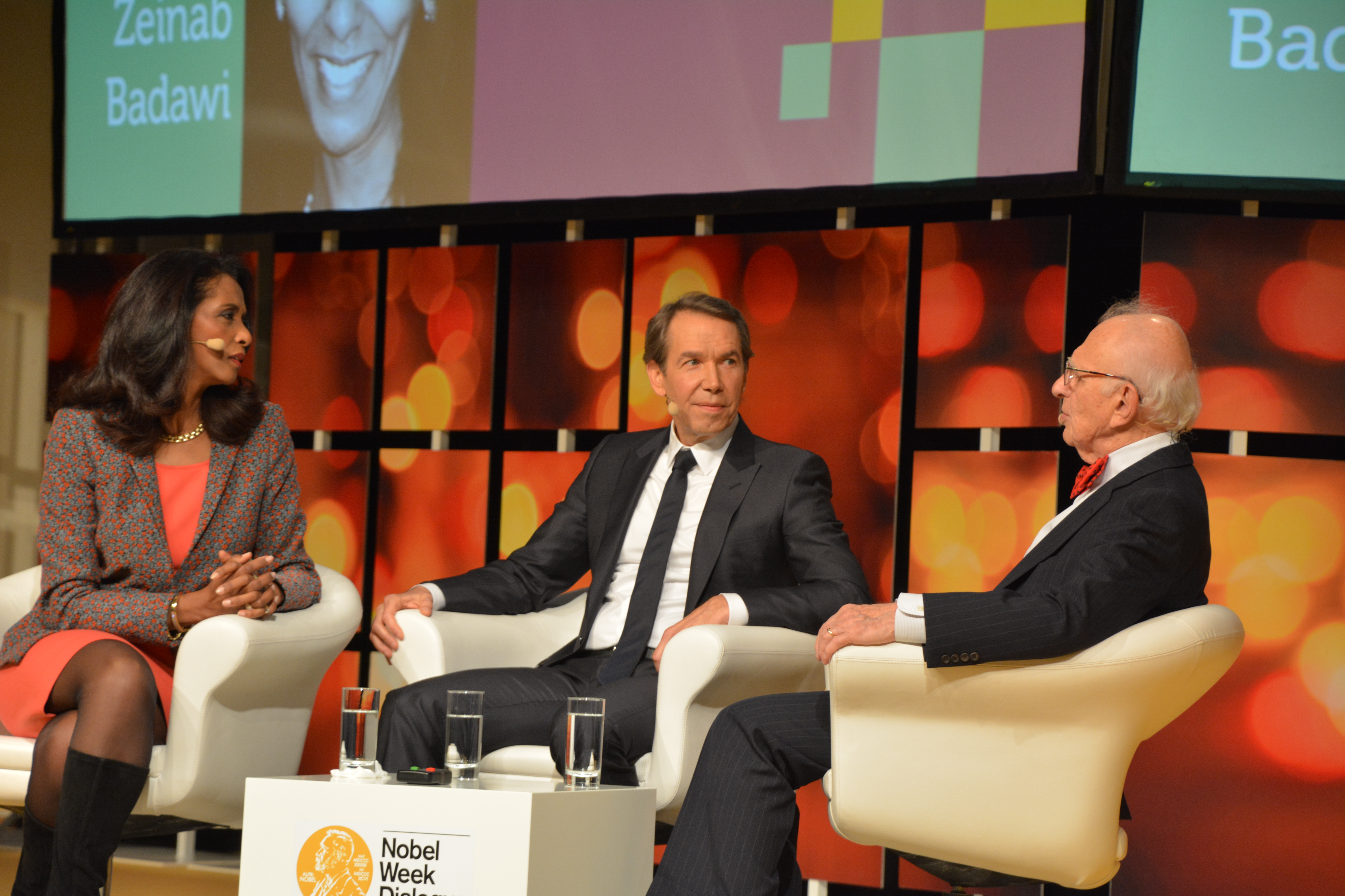 Zeinab Badawi, Jeff Koons and Eric Kandel at Nobel Week Dialogue in Stockholm 2014 on "Immortality in Art and Science"